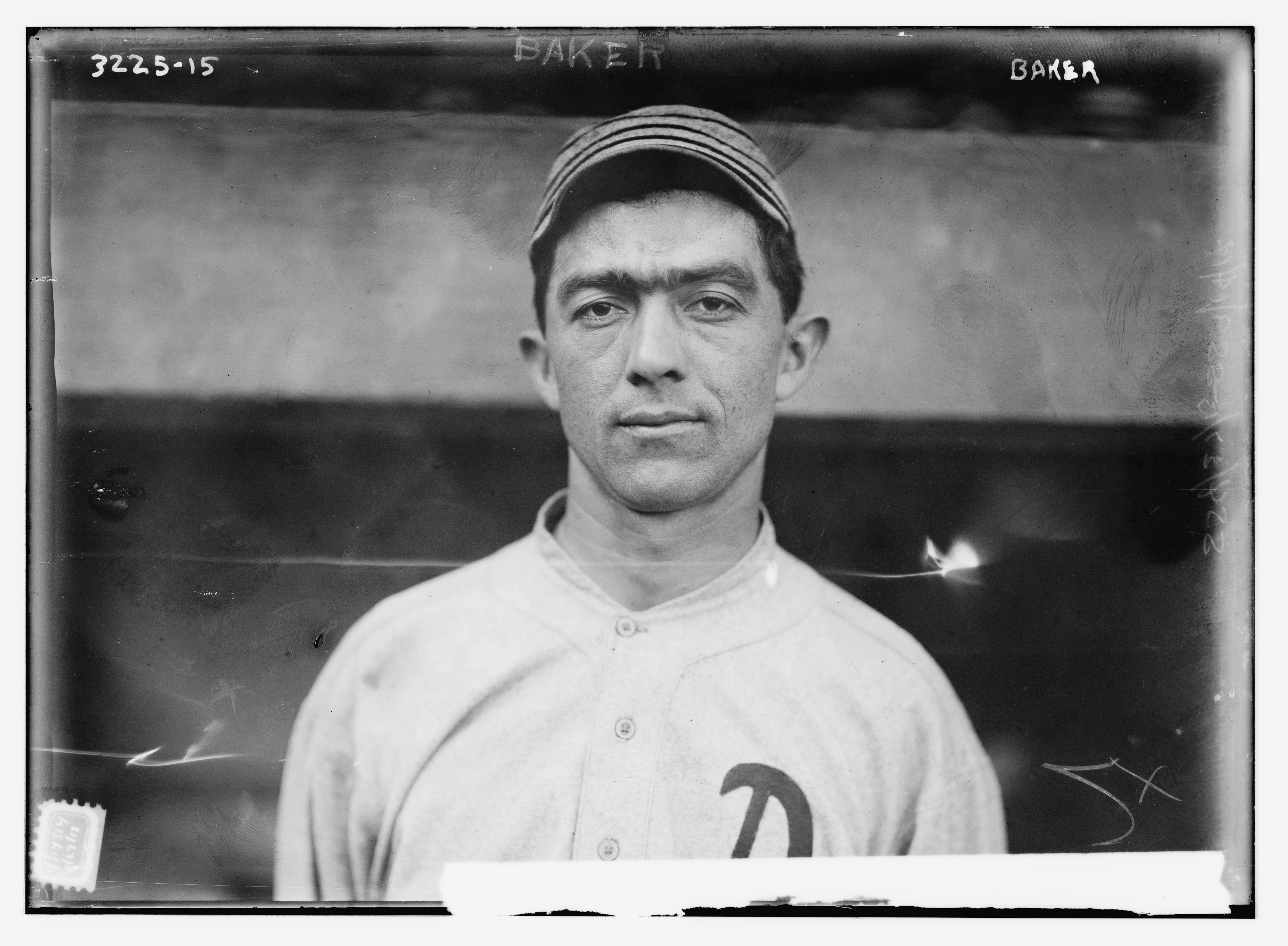 Title: Frank "Home Run" Baker, Philadelphia AL (baseball) Abstract/medium: 1 negative : glass ; 5 x 7 in. or smaller.